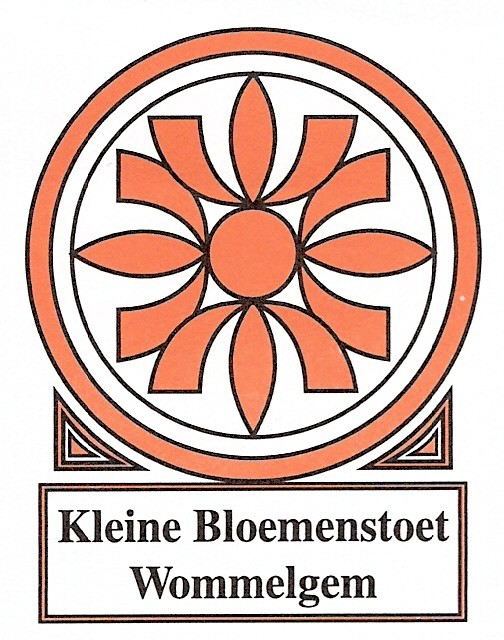 The logo of the 'Vriendenkring Kleine Bloemenstoet' from Wommelgem (Belgium)